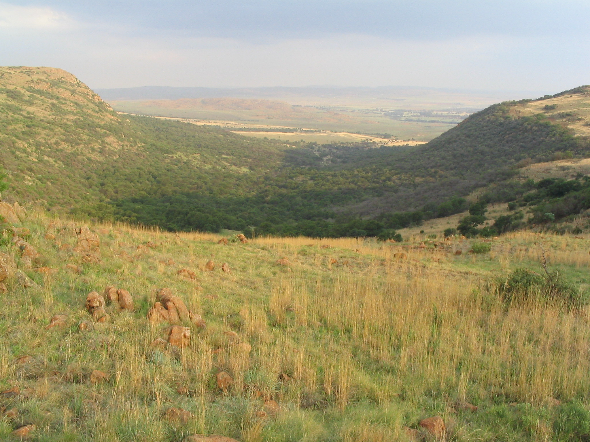 Suikerbosrand Nature Reserve - Valley Picture taken on 12/04/2004.